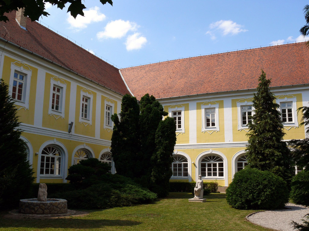 Inner court of Károly Kisfaludy High-School, Mohács, Hungary